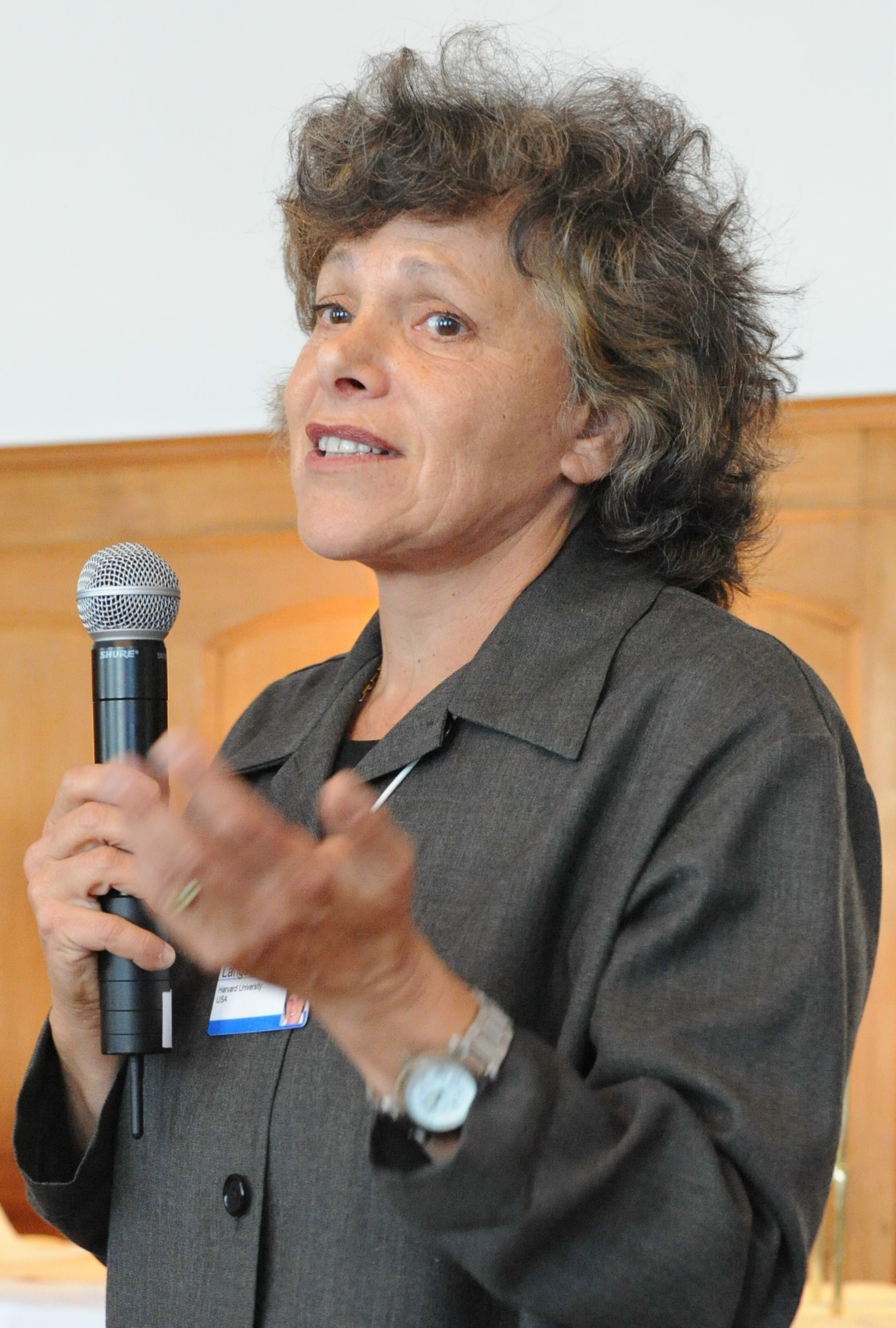 Ellen Langer. Famous psychologist. First tenured female psychologist at Harvard.